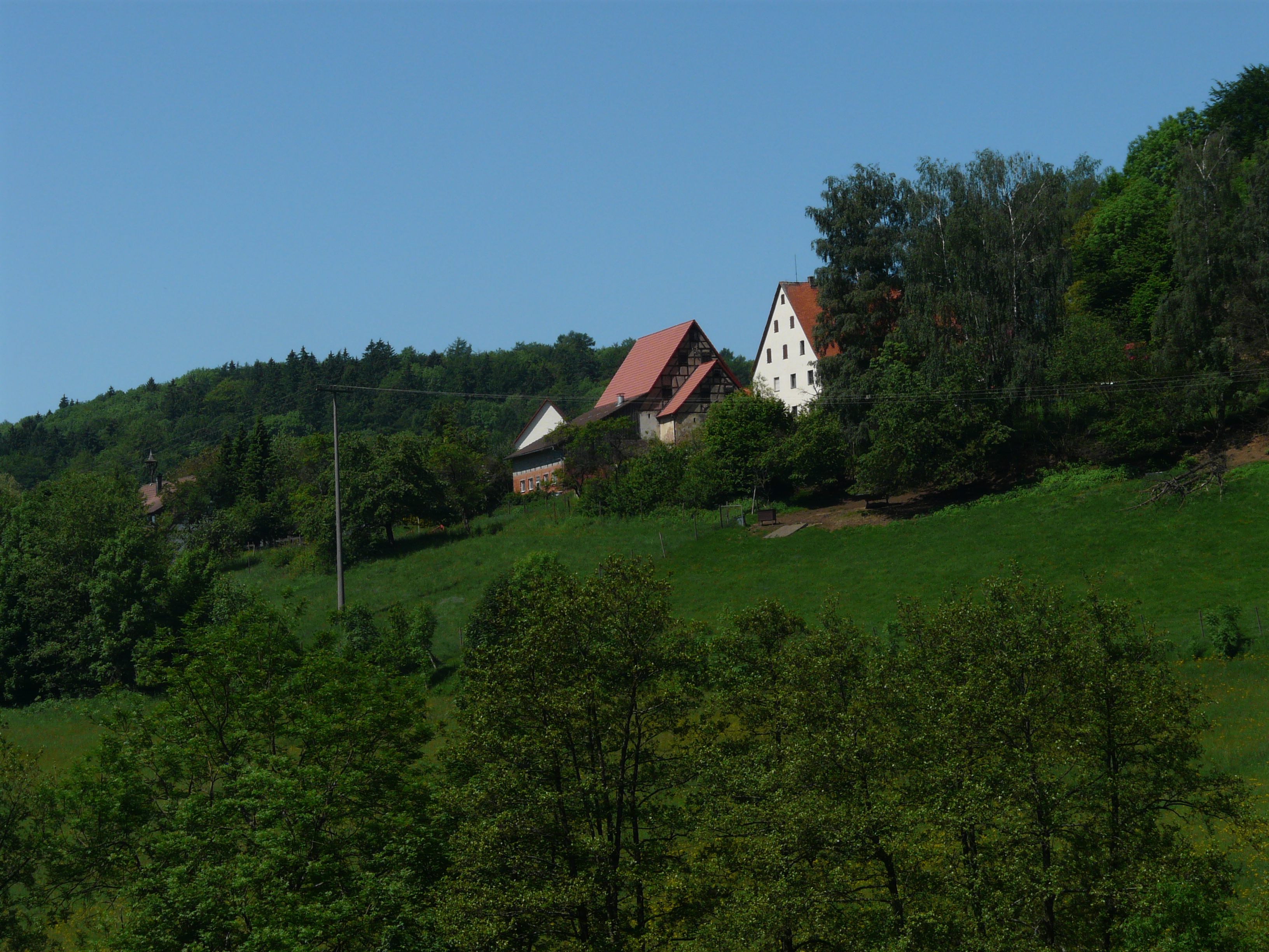 The village Rabenshof, part of the municipality of Schnaittach